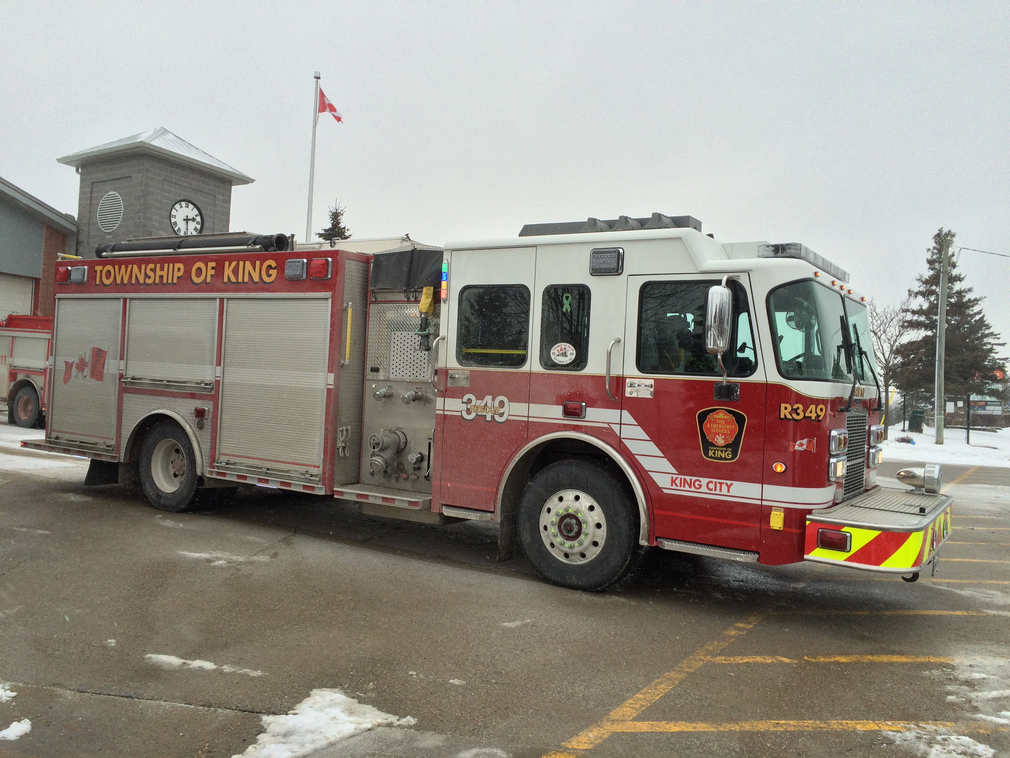 King Township Fire & Emergency Services, Rescue 349, stationed at King City.